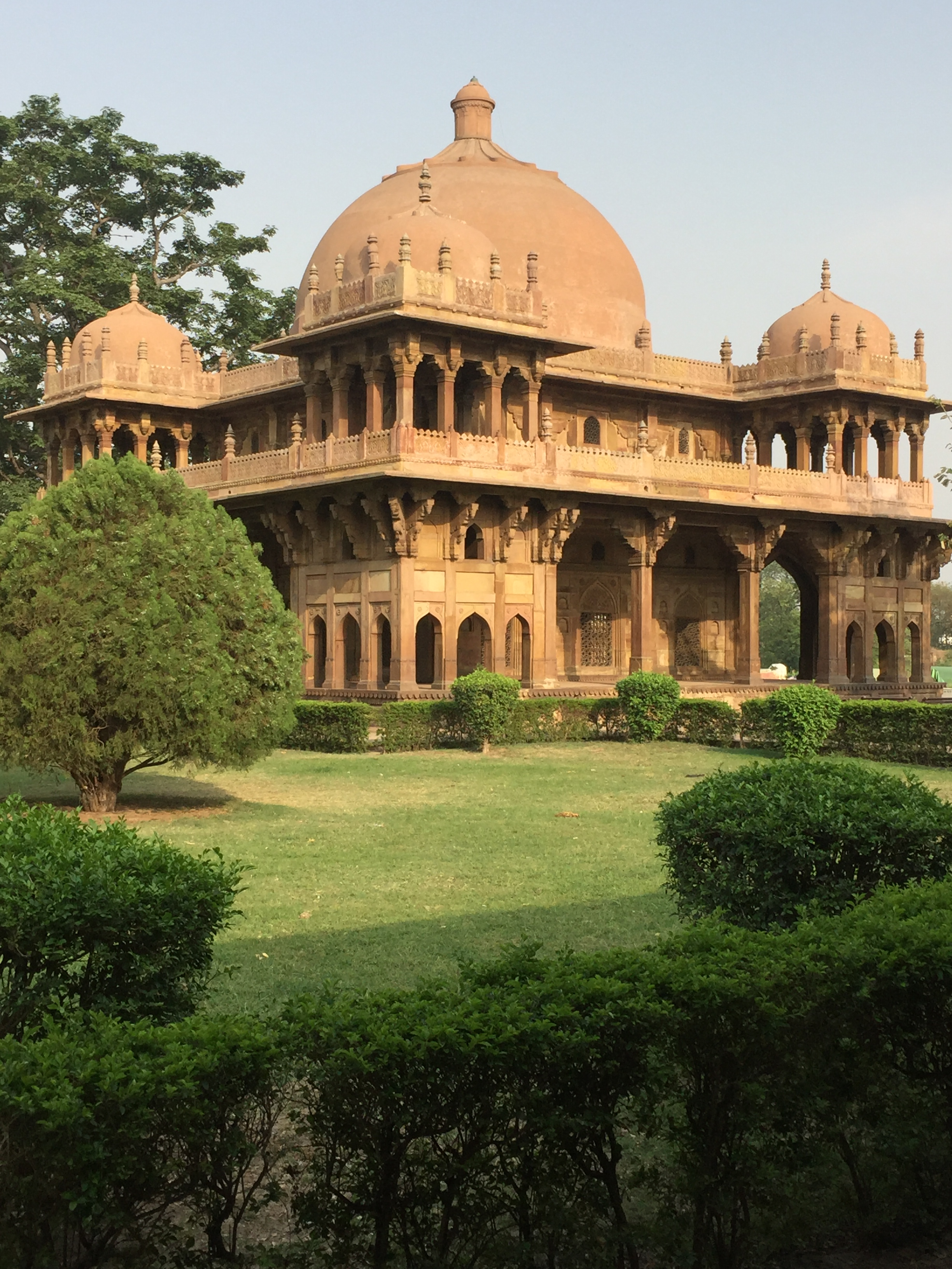 Tomb of Choti dargah in maner . BIHAR. INDIA